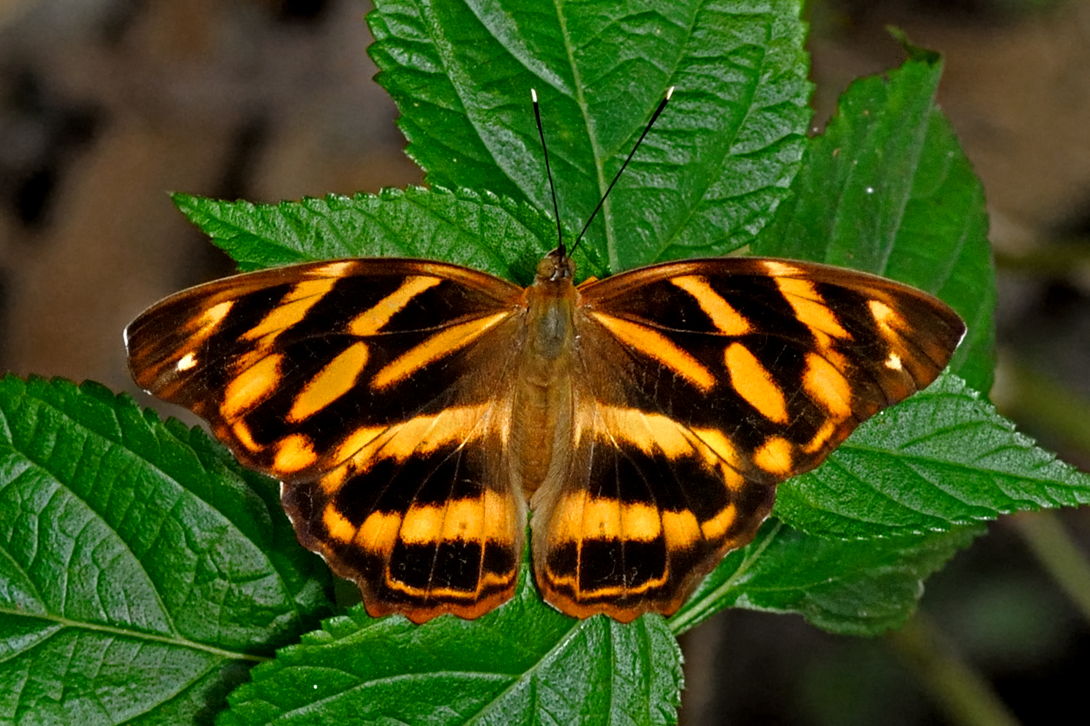 Open wing position of Herona marathus marathus Doubleday, 1848 – Assam Pasha. This species is legally protected in India under Schedule II of the Wildlife (Protection) Act, 1972.